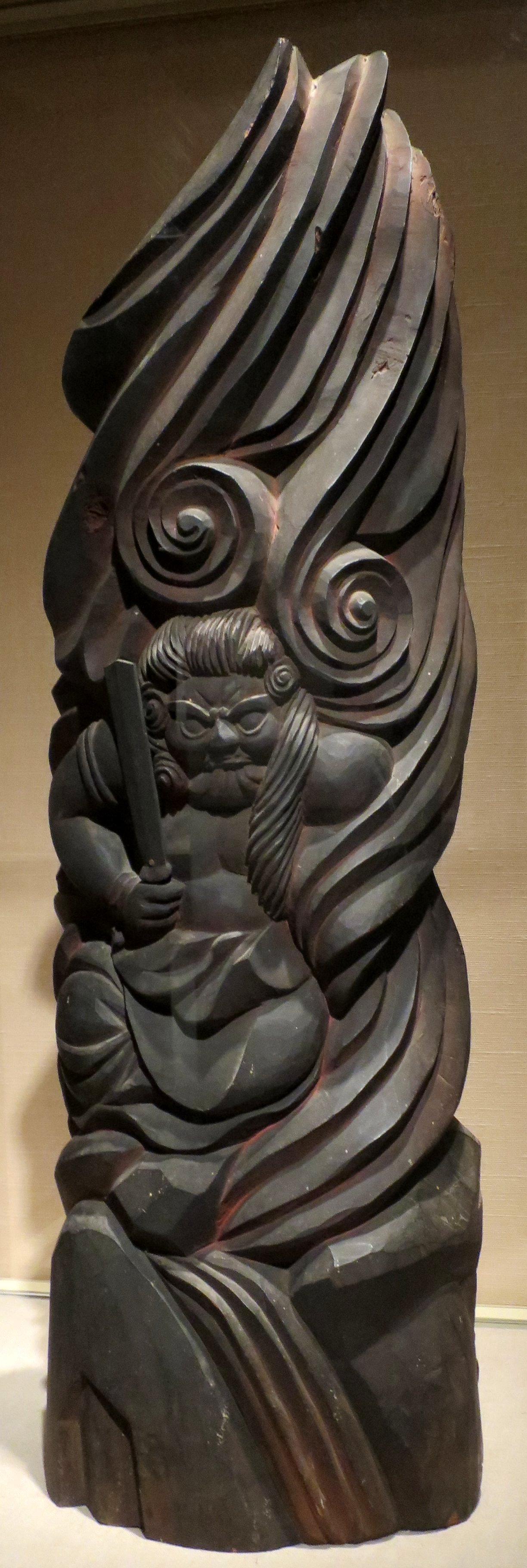 Fudō Myōō by Mokujiki Shōnin, Edo period, dated 1805, chisel carved (natabori) wood, Metropolitan Museum of Art